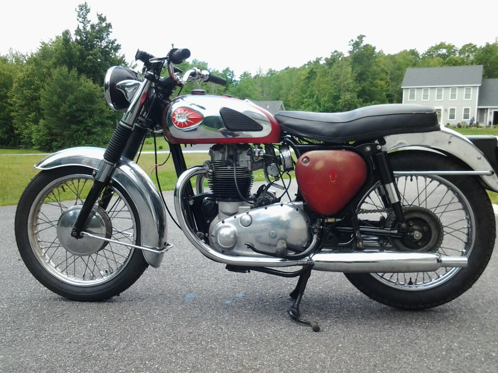 My awesome motorcycle in the driveway